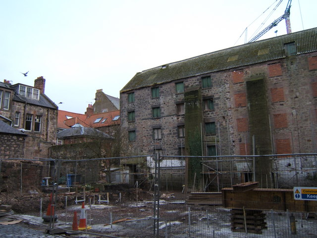 Dewar's Lane Granary from Sallyport Berwick (= 'barley town') originally had eight granaries - Dewar's Lane Granary is the only surviving one, and it is being redeveloped into a Youth Hostel and bistro. This view is from Sallyport, an old lane which passes under the Town Walls via a narrow tunnel to the riverside.